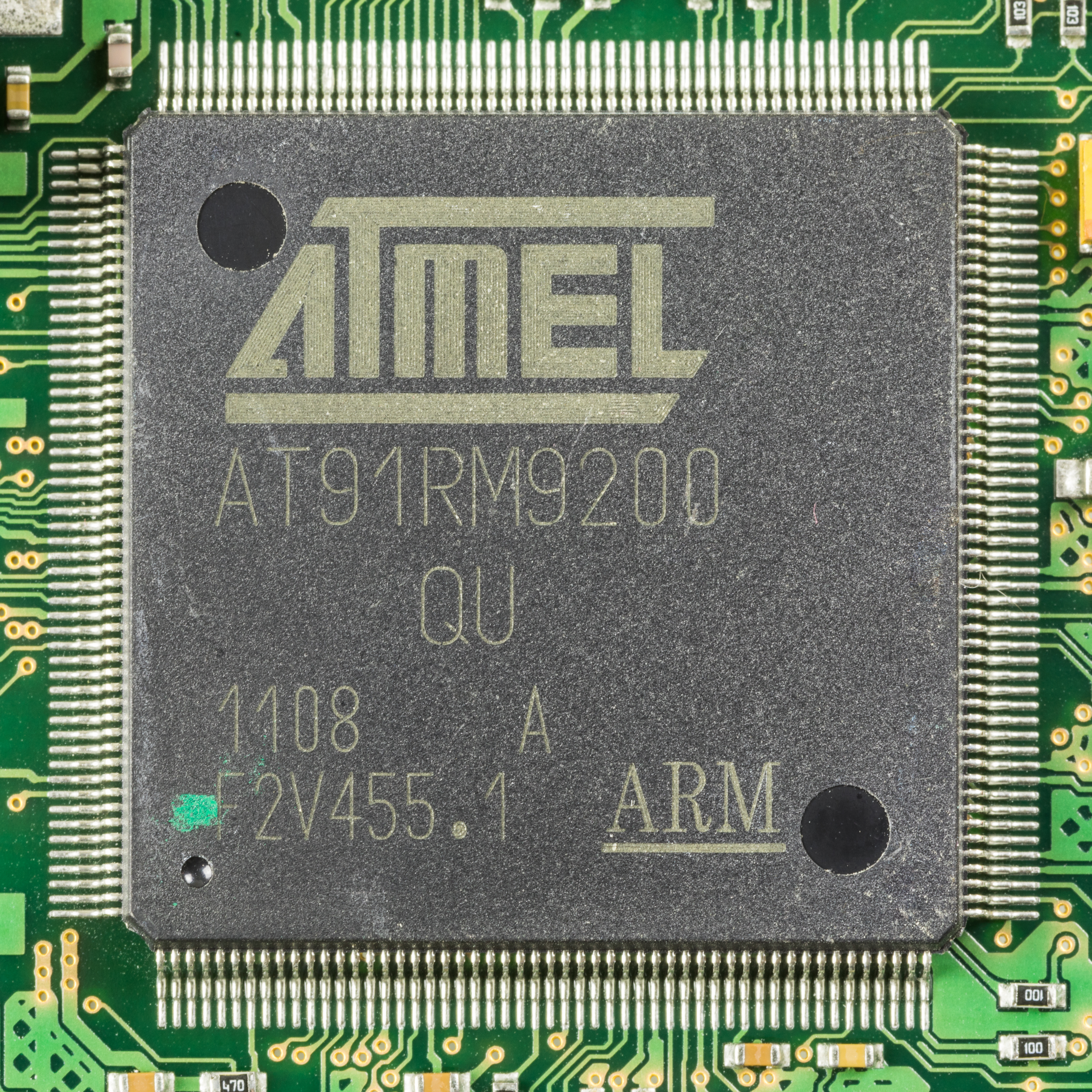 Ingenico Healthcare ORGA 6041 - board - Atmel AT91RM9200 -SMART ARM-based Embedded MPU. Package: 208-pin PQFP